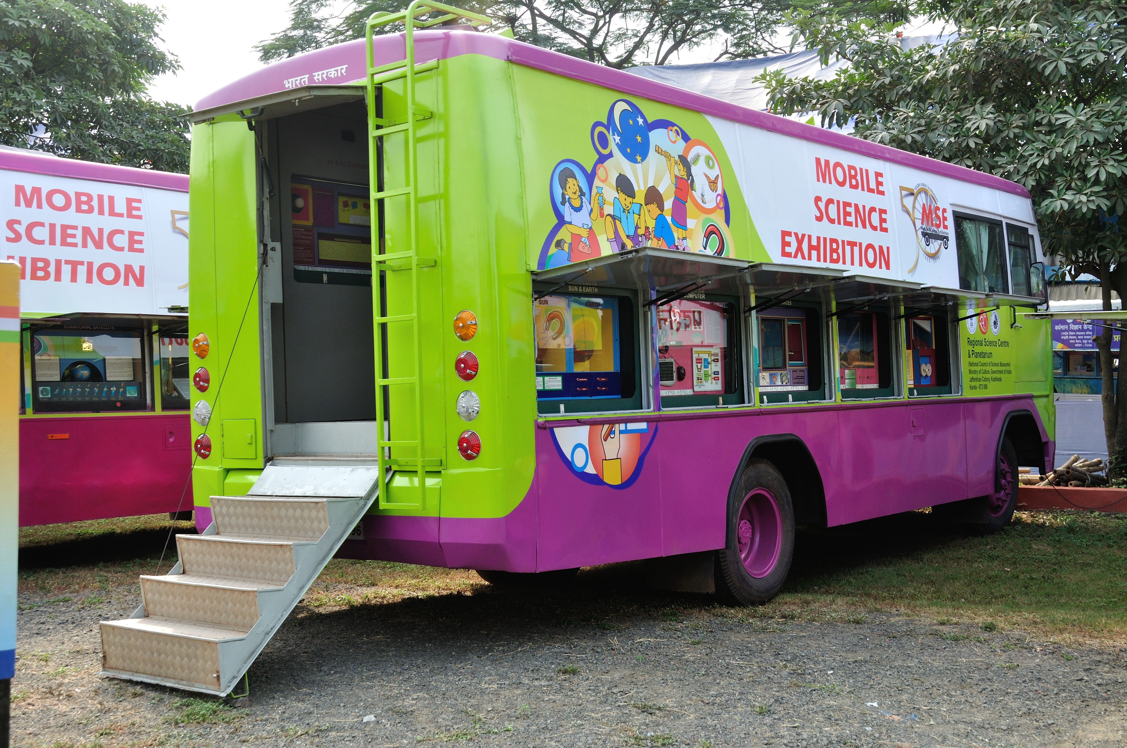 Photographed during the exhibition at the ‘Golden Jubilee Celebration’ of ‘Mobile Science Exhibition’ (MSE) by the ‘National Council of Science Museums’ (NCSM), under the Ministry of Culture, Government of India that was held at Science City, Kolkata that was held from 17 to 20 November 2015.